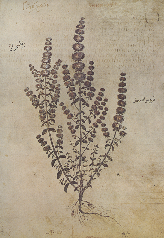 glêkhôn folio 87r